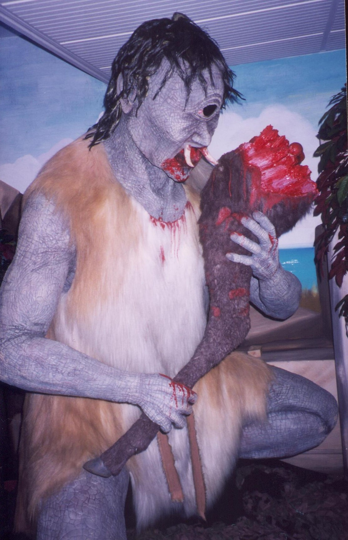 Robotic cyclops, Yorkshire Museum (mid-late 1990s)